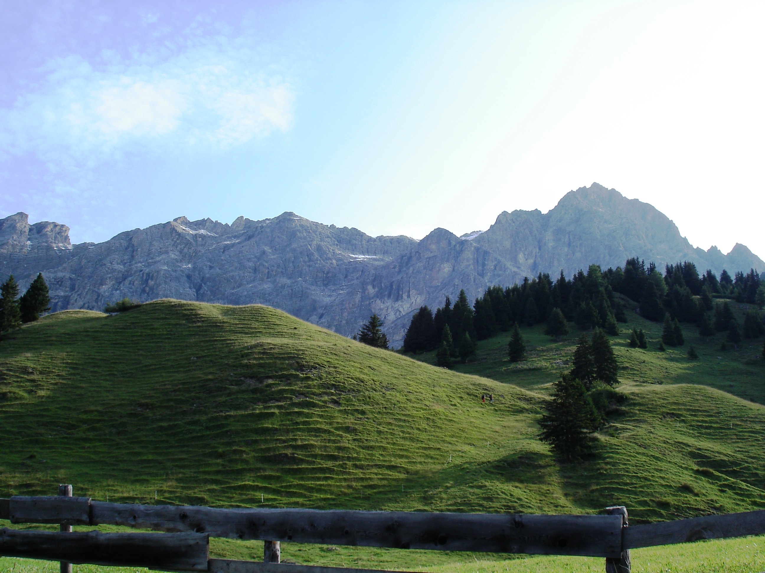 Piz Mitgel, 3159 m, view from Plang la Curvanera, Savogin, Grisons, Switzerland